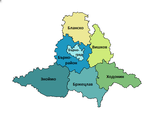 Districts of South Moravian Region